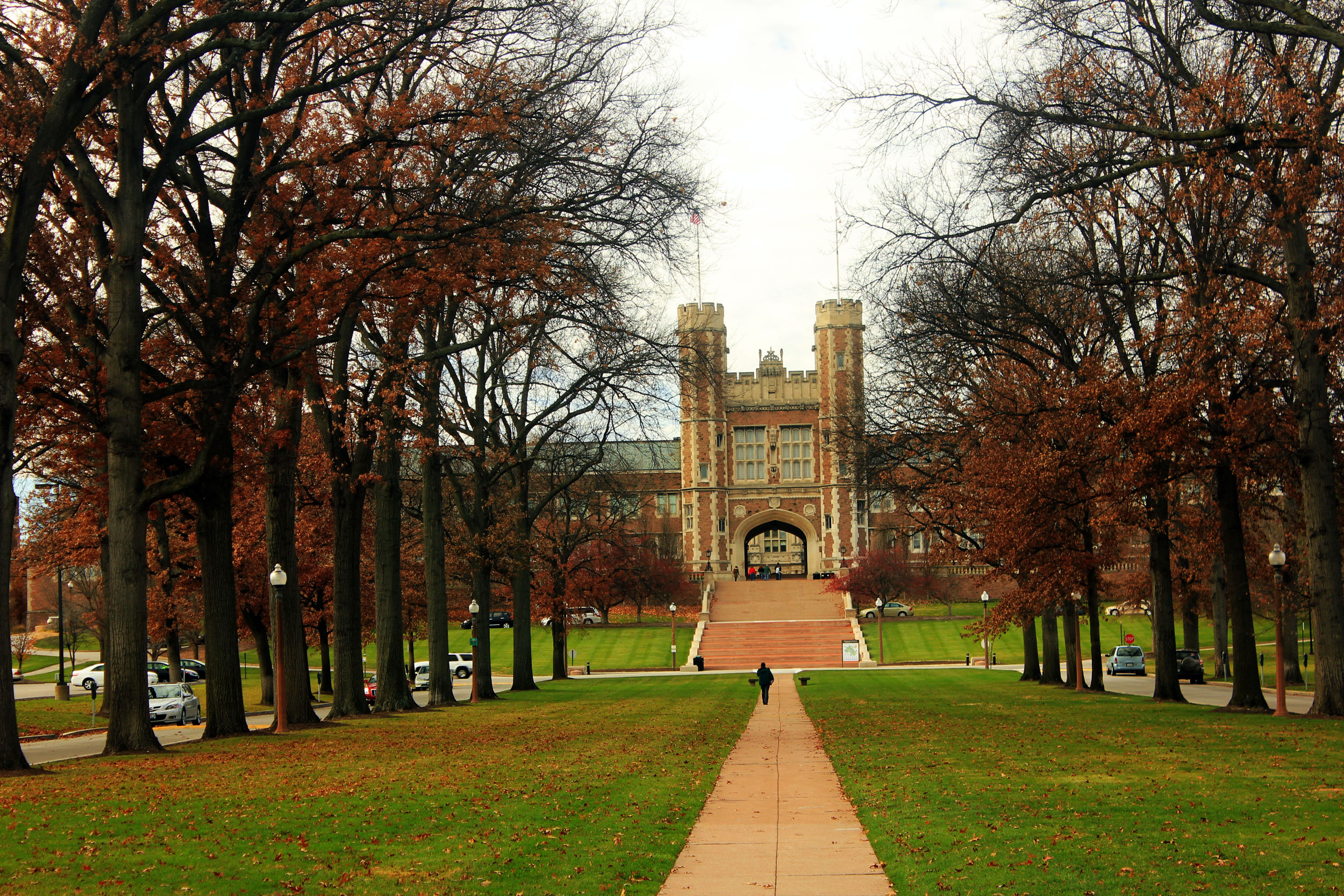 The Arch and many of the sights and scenes from St. Louis Looking at the Danforth building on the Washington University in St. Louis Campus